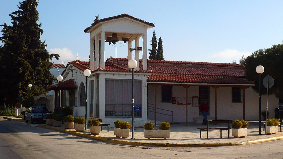 The picture depicts the Agiou Antoniou (Saint Antonio's) Square at Patima.